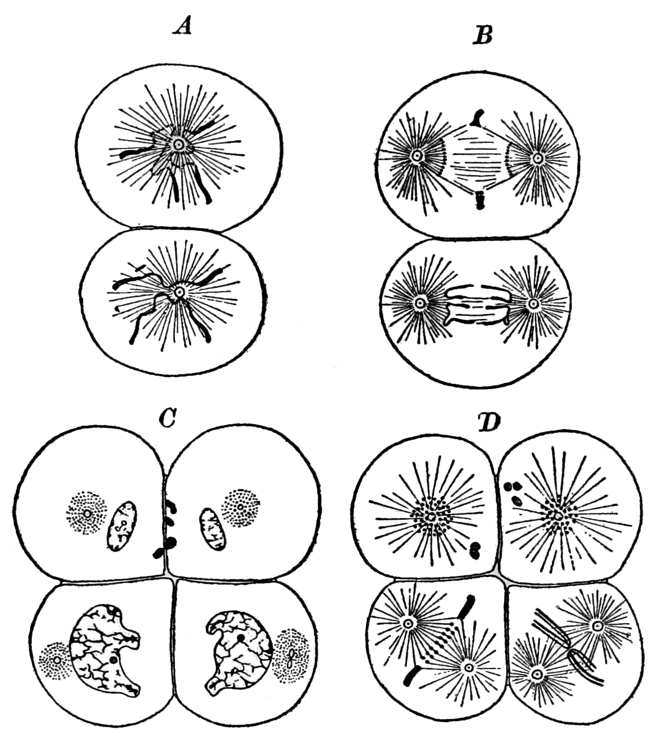 Germ and somatic cell differentiation in the egg of ascaris